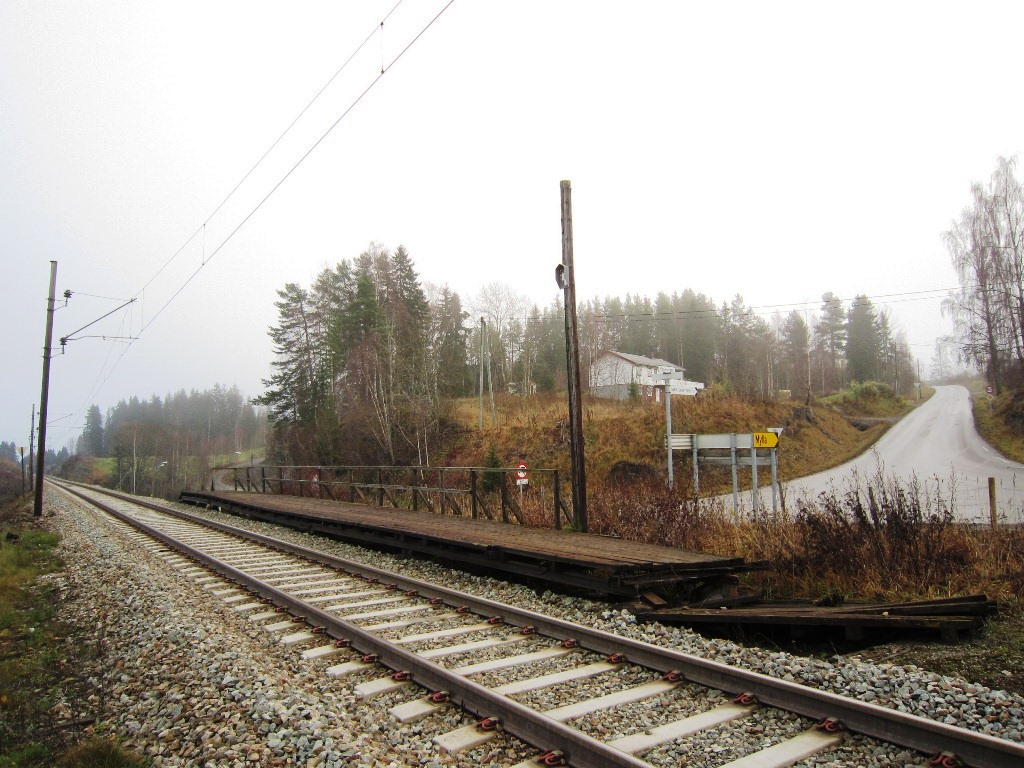 Kalvsjø station on the Roa-Hønefoss line